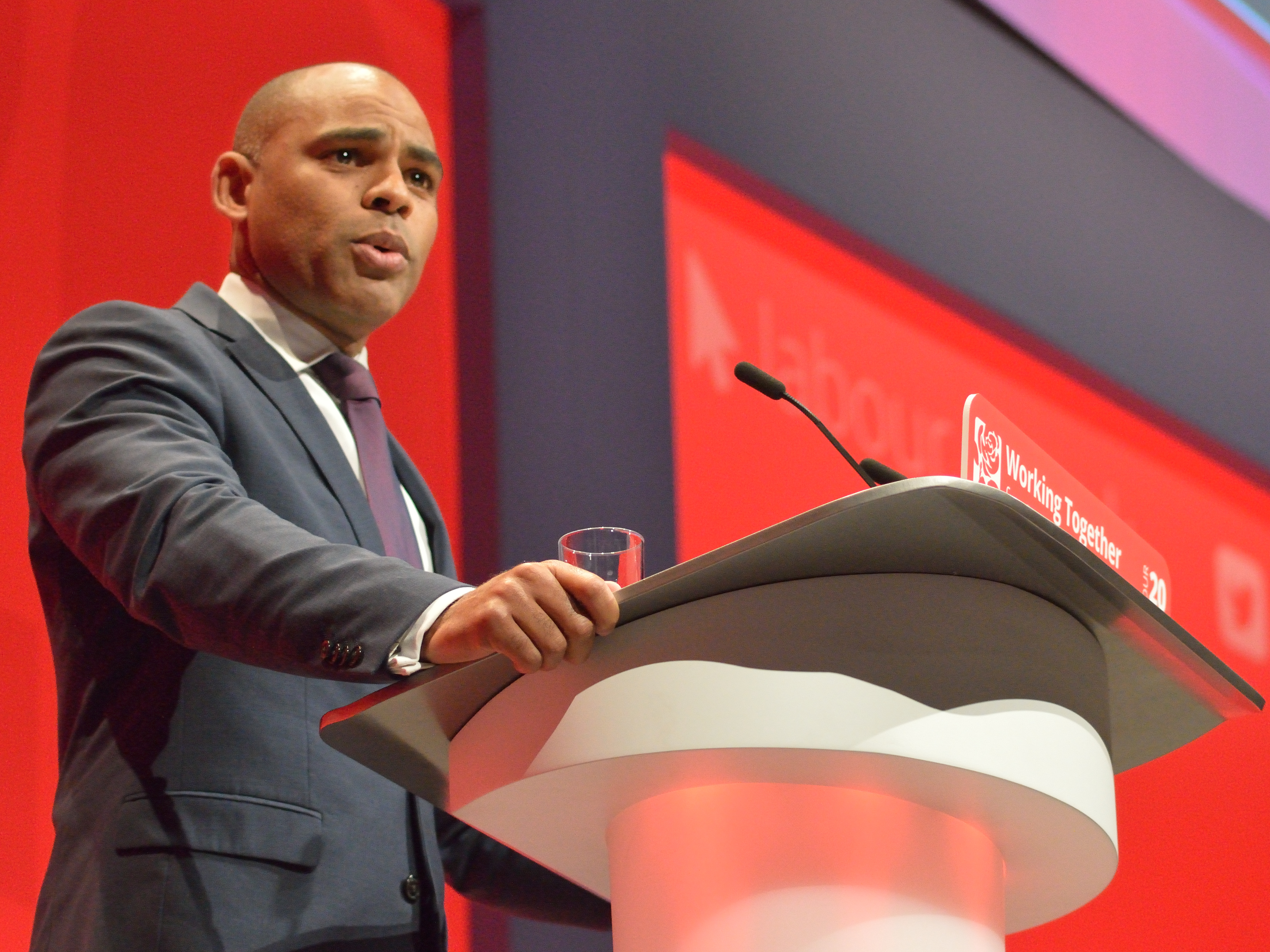 Marvin Rees, Mayor of Bristol, speaking at the 2016 Labour Party Conference in Liverpool.